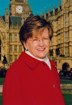 Hilary Armstrong MP in front of the Houses of Parliament